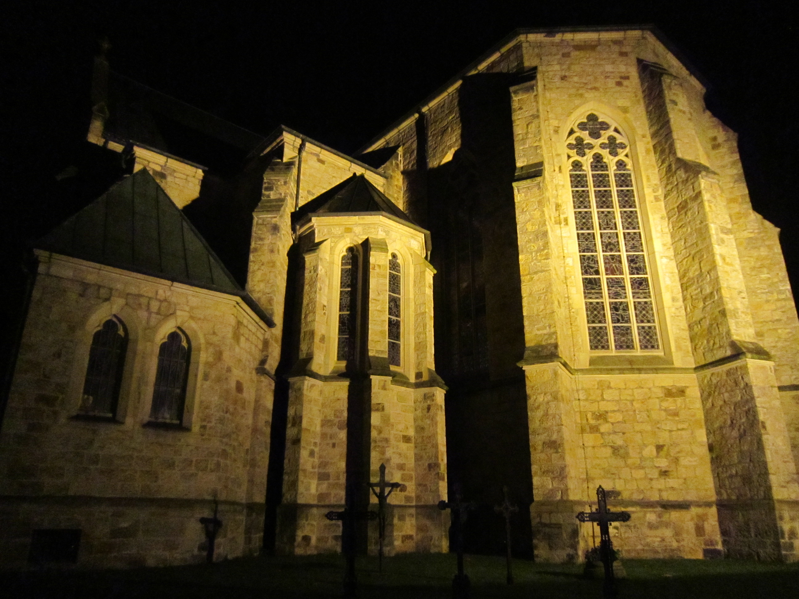 Backside of St. Cyriakus Church in Salzbergen